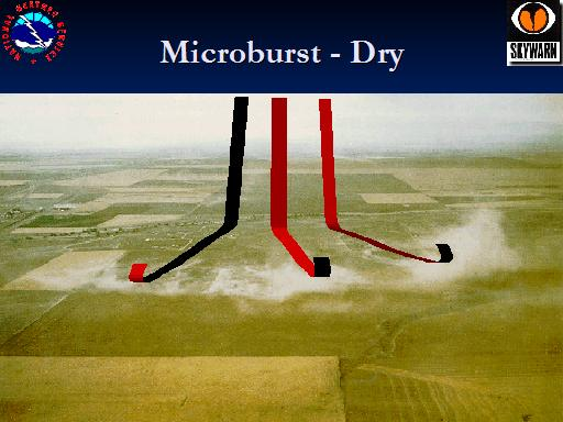 Illustration of a Dry Microburst